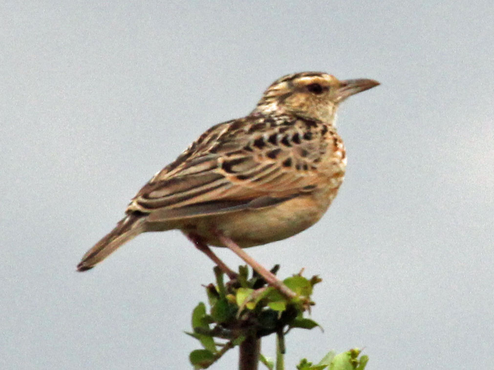 Singing Bush Lark (Mirafra cantillans) - Nairobi National Park, Kenya